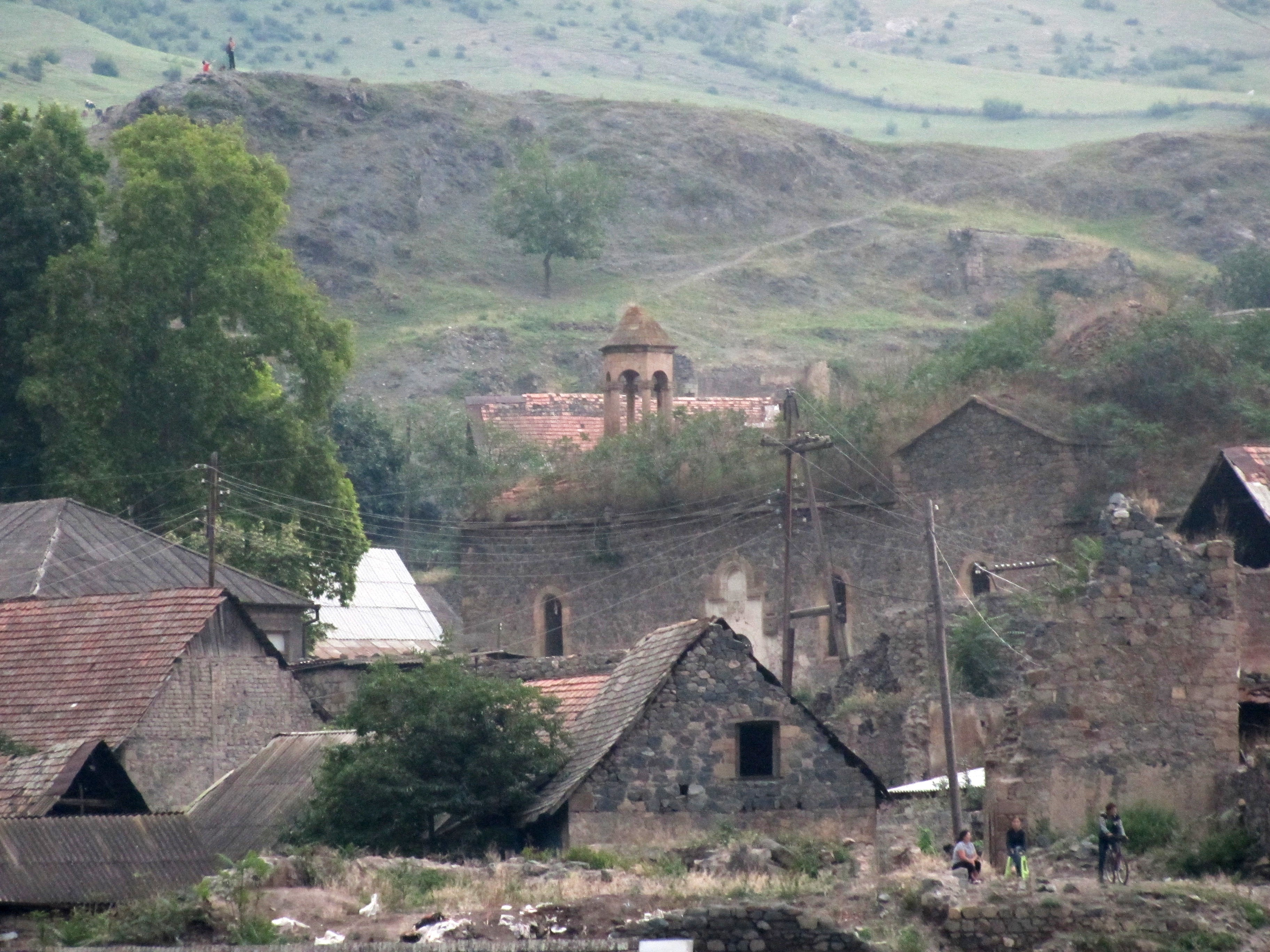 Temple of the 15th century in Bayan village of Dashkasan Rayon of Azerbaijan.